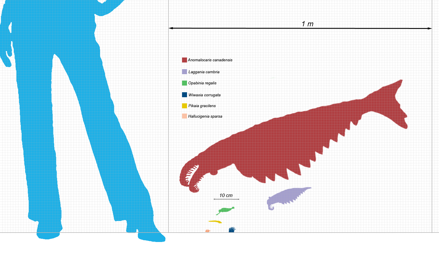 Size comparison of selected Burgess Shale fauna and a human. Modified from illustrations by ArthurWeasley, Matt Martyniuk, and Mateus Zica Species, from top to bottom: Anomalocaris canadensis Laggania cambria Opabinia regalis Wiwaxia corrugata Pikaia gracilens Hallucigenia sparsa